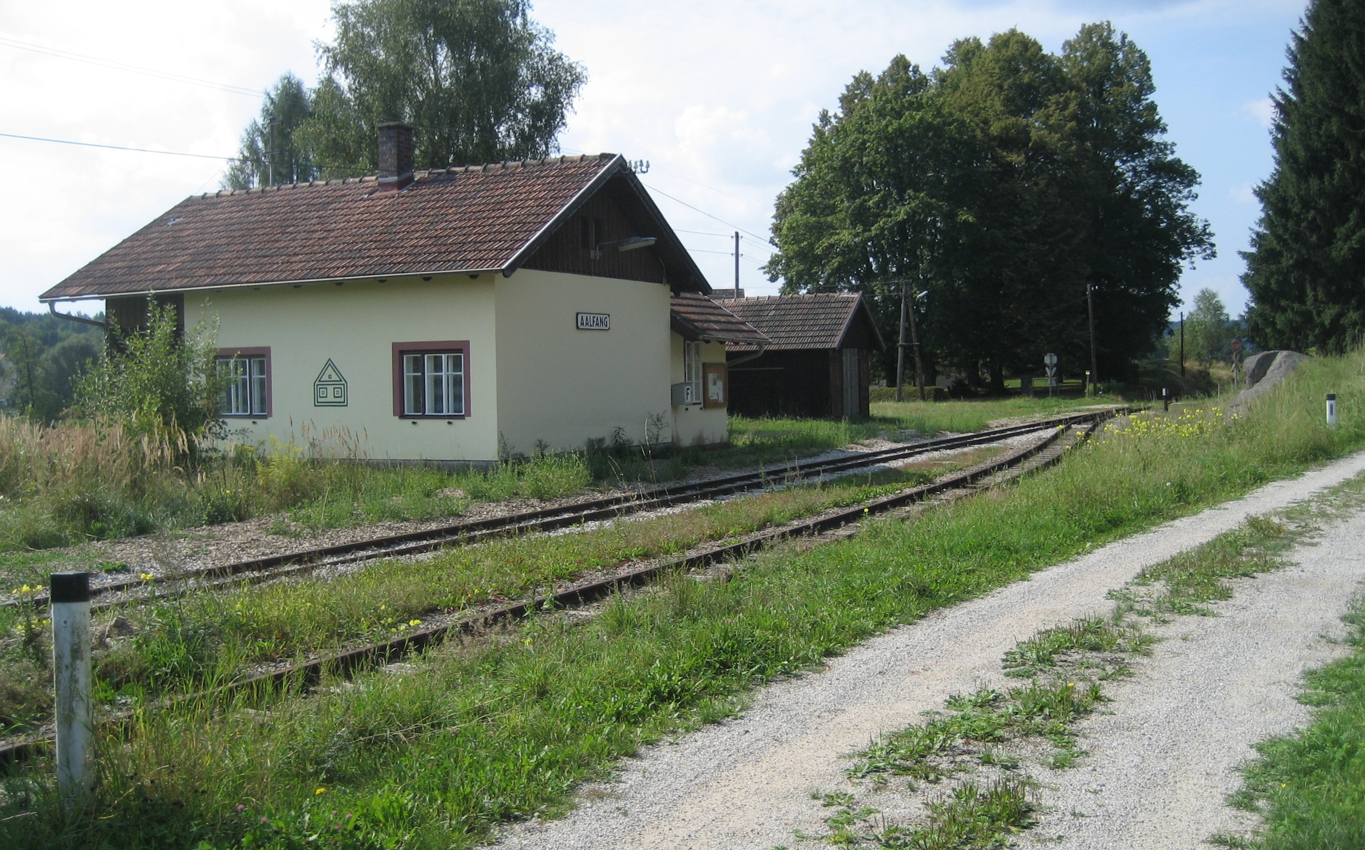 Aalfang train station in Lower Austria